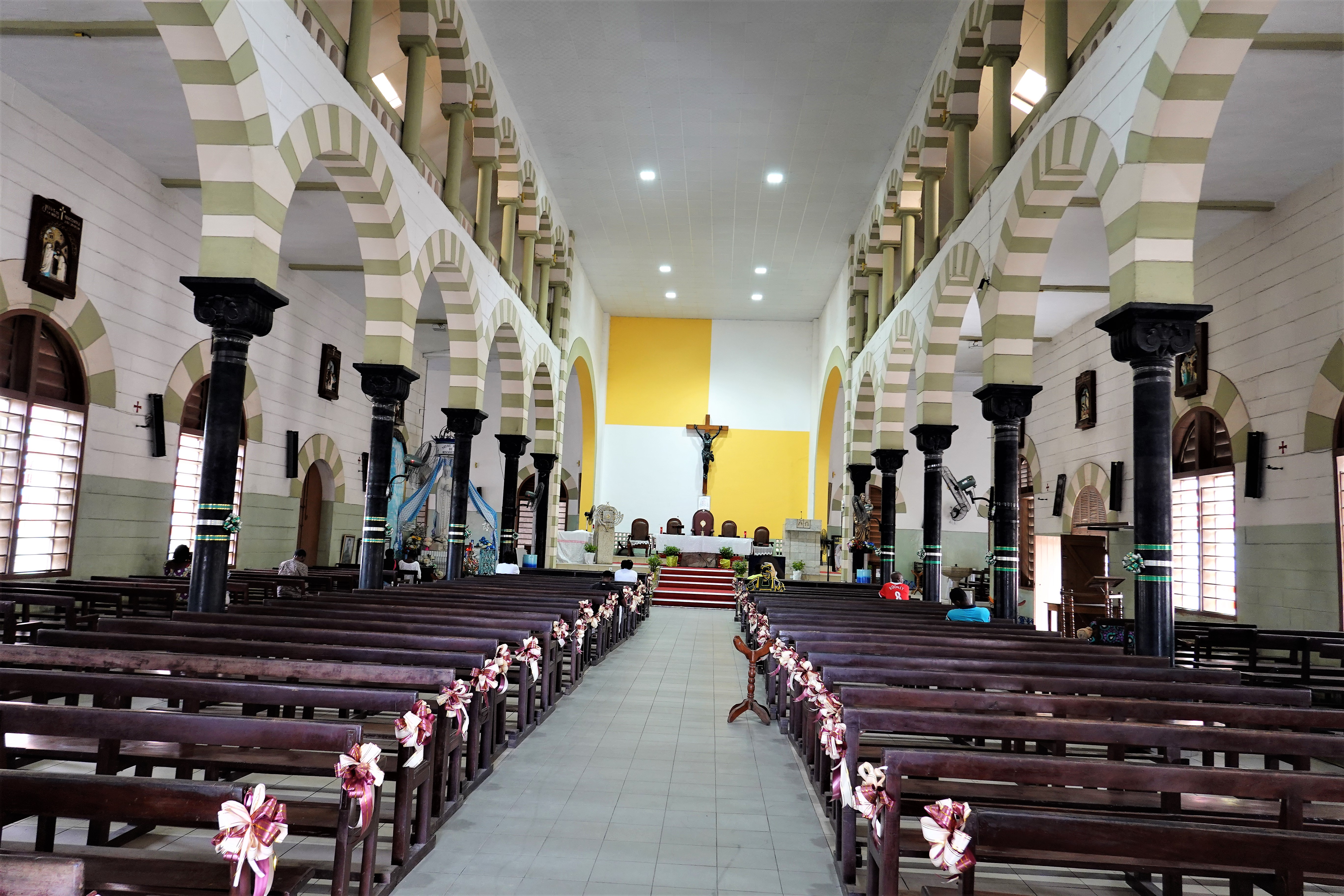 church benches, pillars, church interior, cross